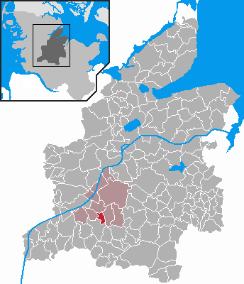 Locator maps of municipalities in Schleswig-Holstein - District Rendsburg-Eckernförde